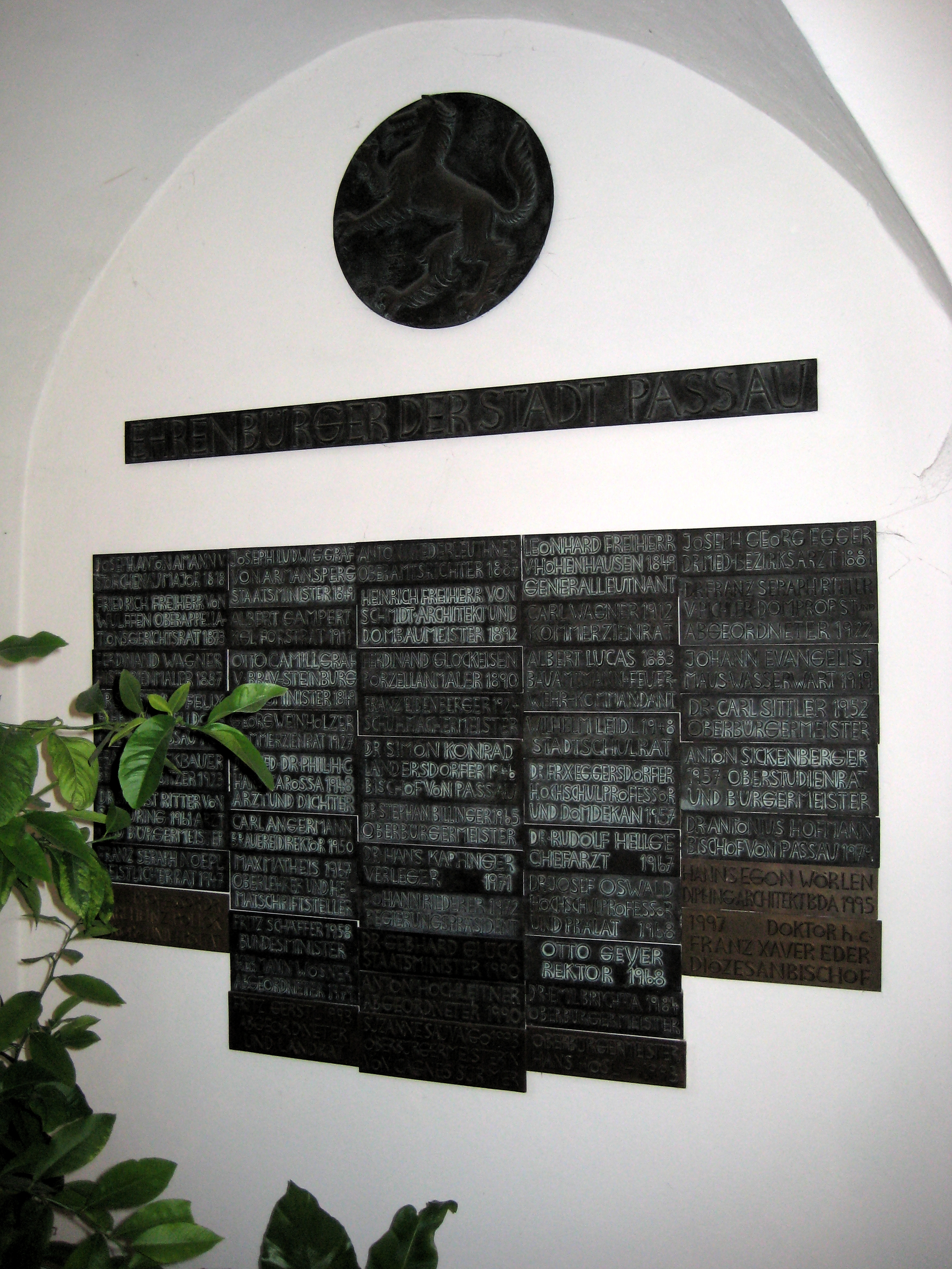 Memorial tablets for honorary citizens in the town hall of Passau, Bavaria